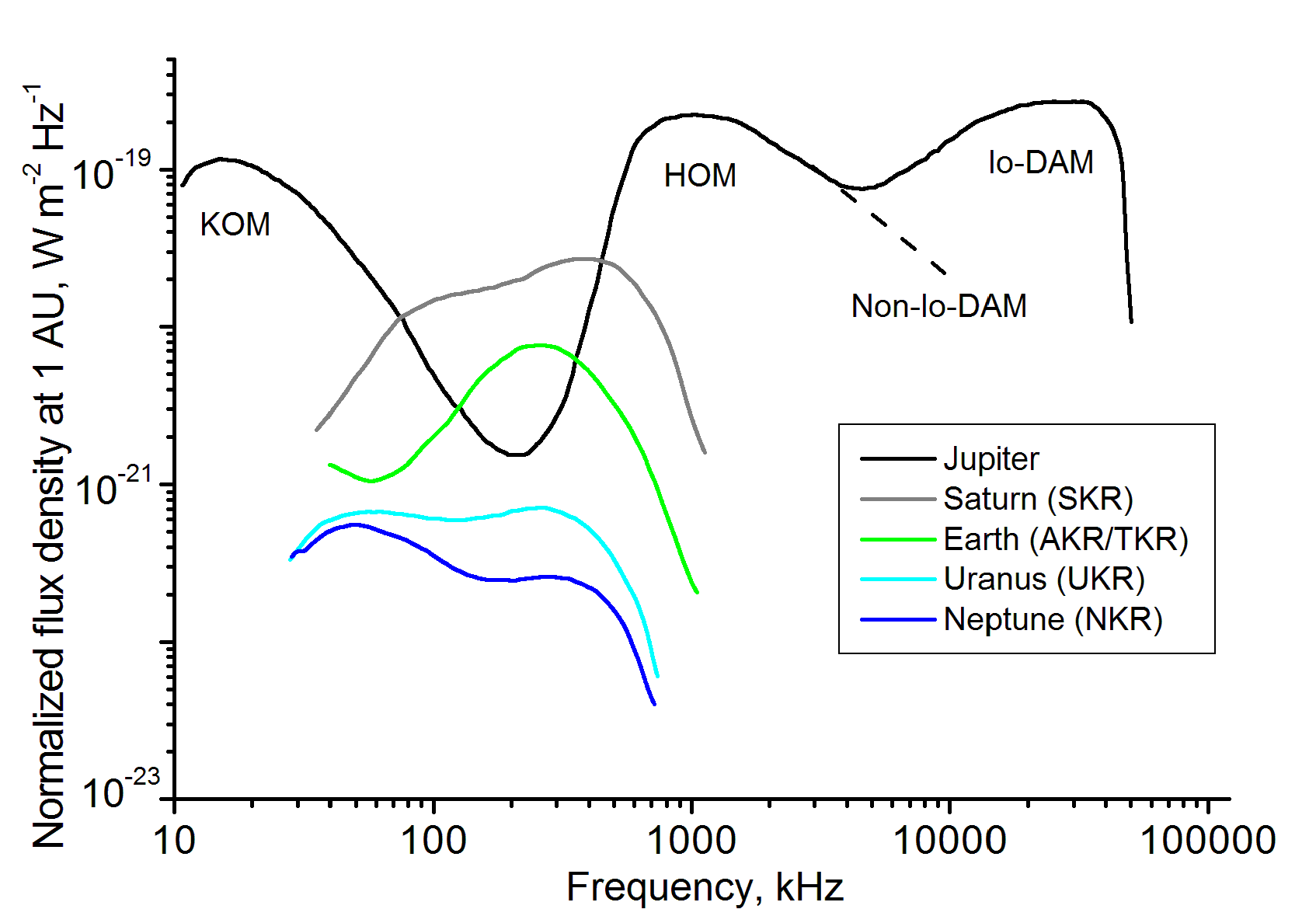 The graph shows the spectra of radio emissions of five magnetized Solar System planets. (DAM—decametric radiation, HOM—hectormetric radiation, and KOM—kilometric radiation) Source: Zarka, Philippe; Kurth, W.S. (1998). "Auroral radio emissions at the outer planets: Observations and theory". Journal of Geophysical Research 103 (E9): 20,159–194.